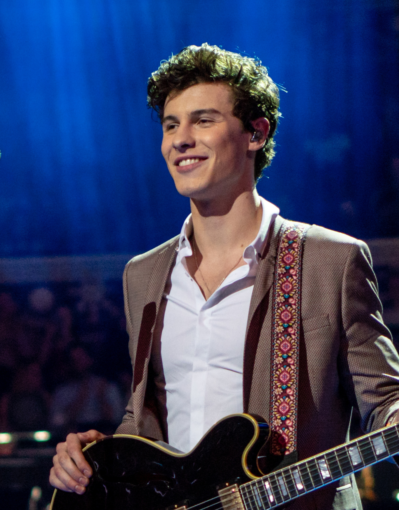 Shawn Mendes at The Queen's Birthday Party